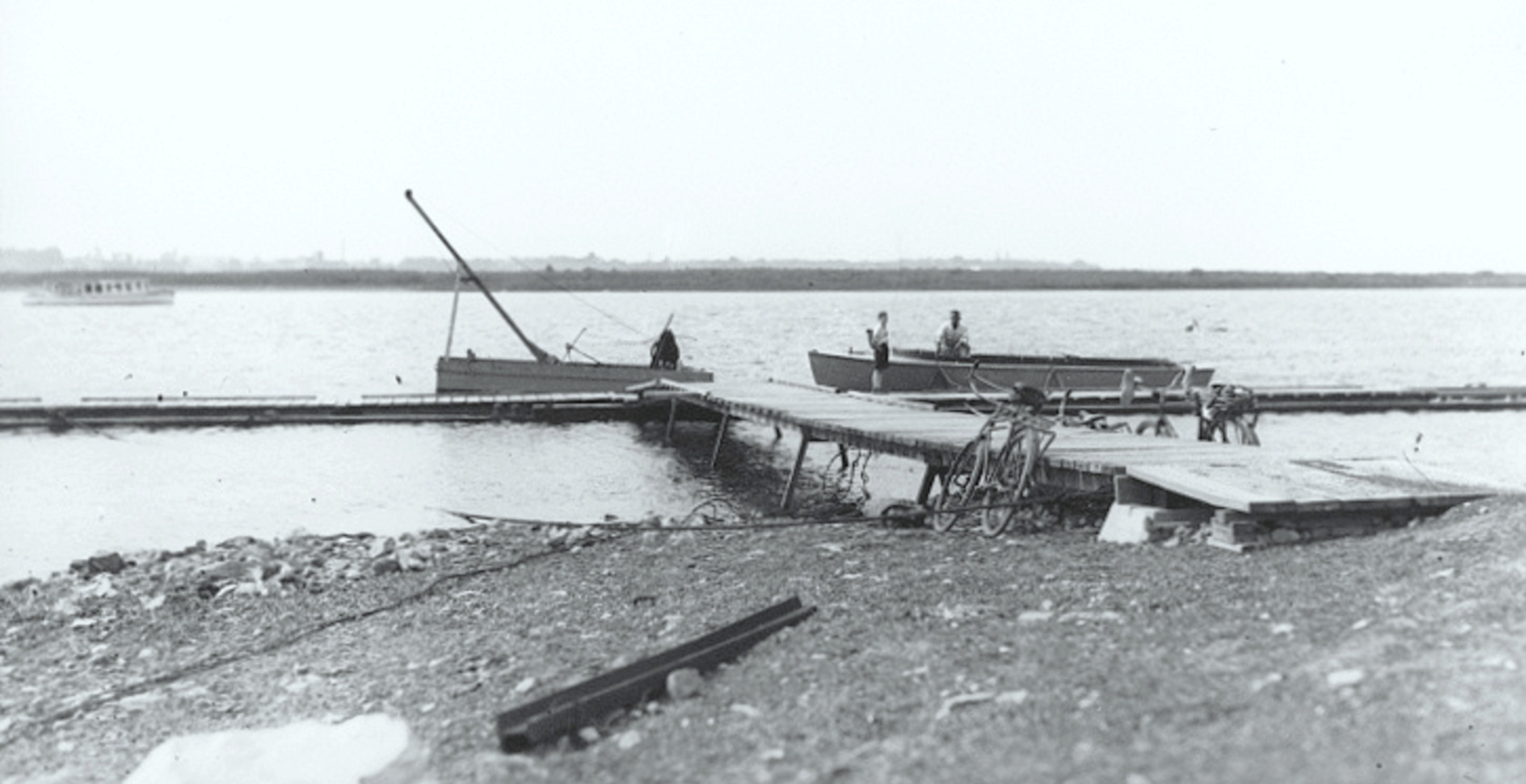 Photograph, Dock before General Balbo's visit, Longueuil, QC, 1932, Anonymous, Silver salts on glass - Gelatin dry plate process, 12 x 17 cm